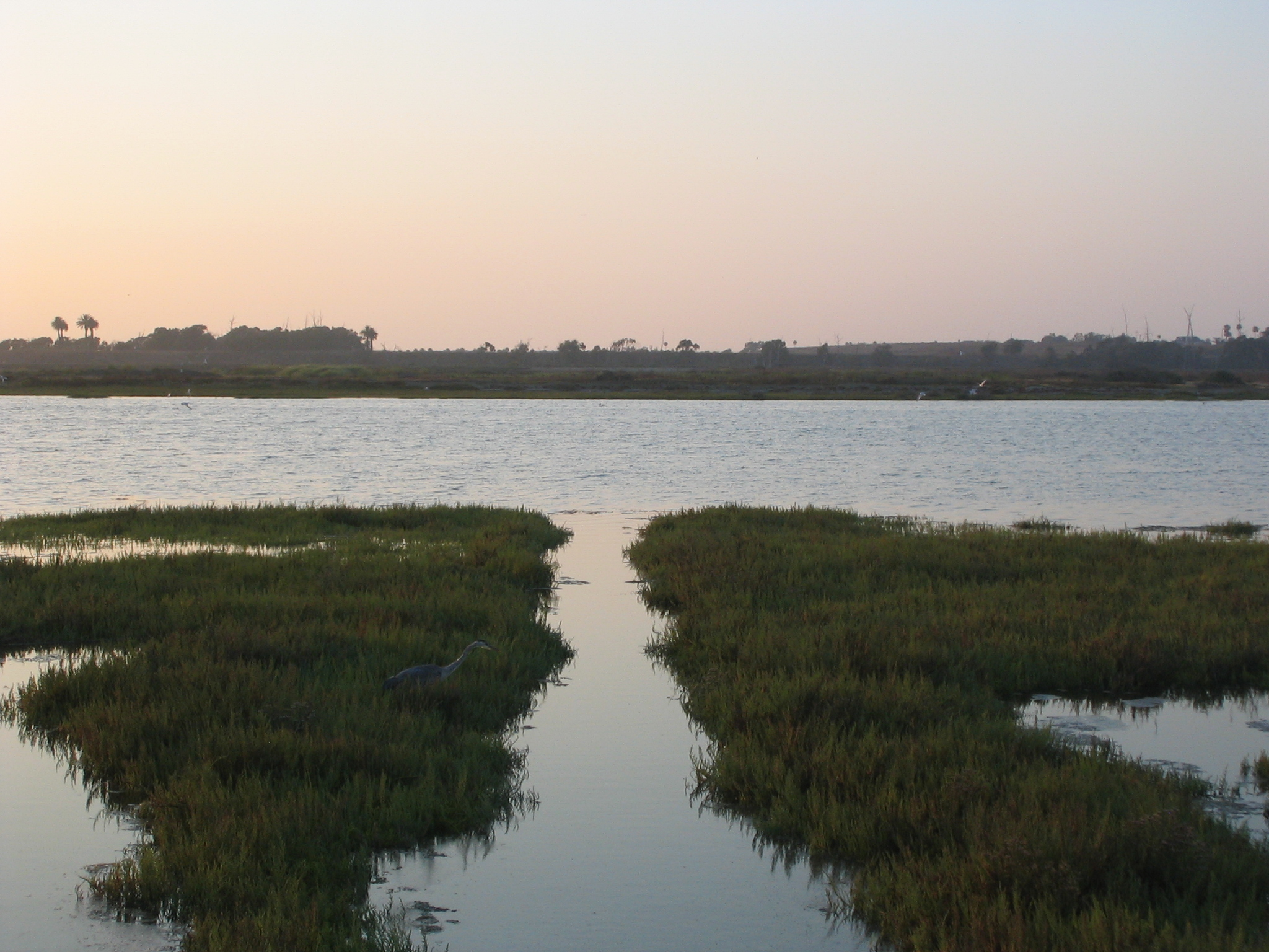 The wetlands estuary at Bolsa Chica Ecological Reserve, near Huntington Beach, Orange County, California.